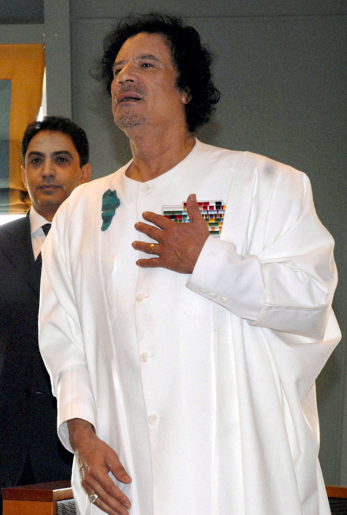 The leader de facto of Libya, Muammar al-Gaddafi.